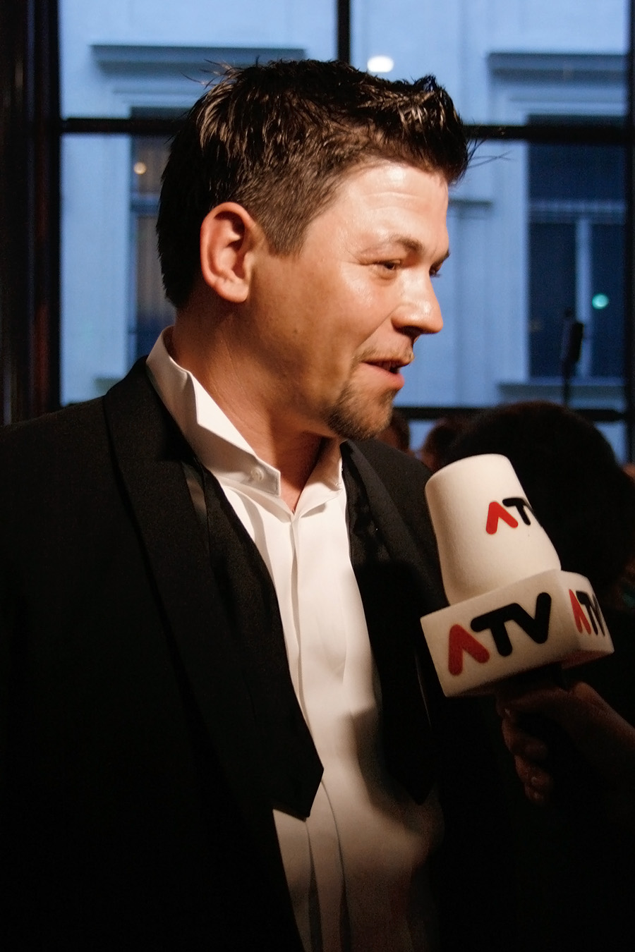 Tim Mälzer at the charity ball dancer against cancer (Hofburg Imperial Palace, Vienna)